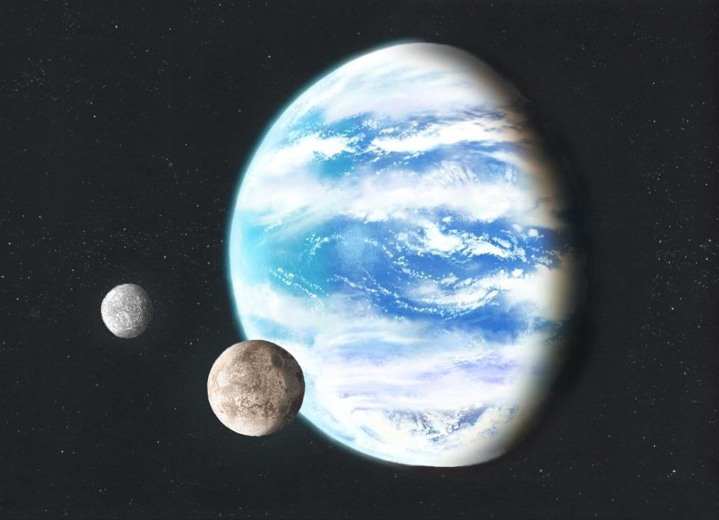 image of a hypothetical ocean planet with a terrestrial atmosphere and two satellites.